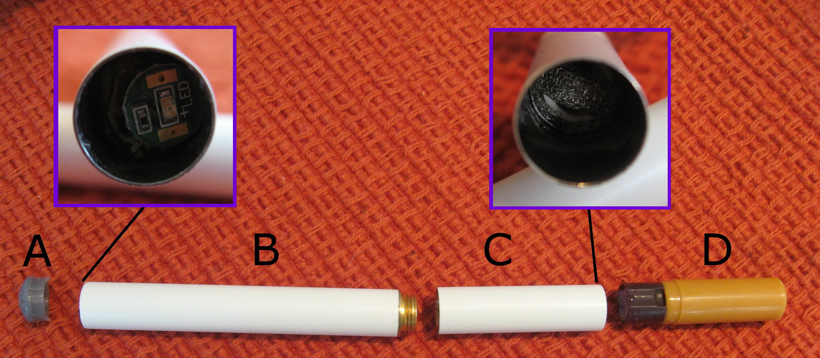 MiniCiggy e-cigarette components This s a breakdown of the components of the MiniCiggy e-cigarette. A: LED light cover B: battery (also houses circuitry) C: atomizer (heating element) D: cartridge (mouthpiece)